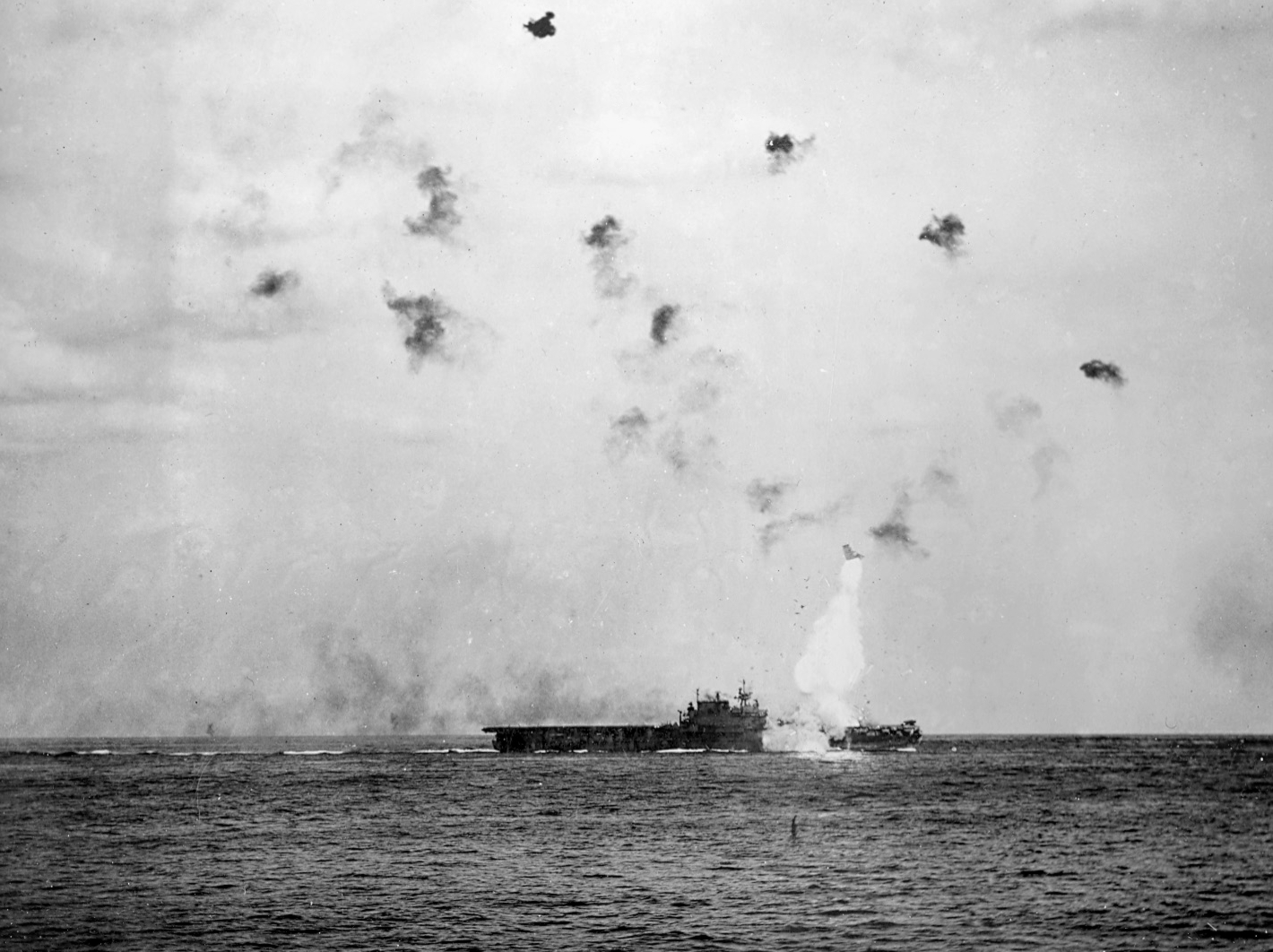 The forward elevator of the U.S. Navy aircraft carrier USS Enterprise (CV-6) is blown circa 120 m into the air after a kamikaze hit on 14 May 1945.